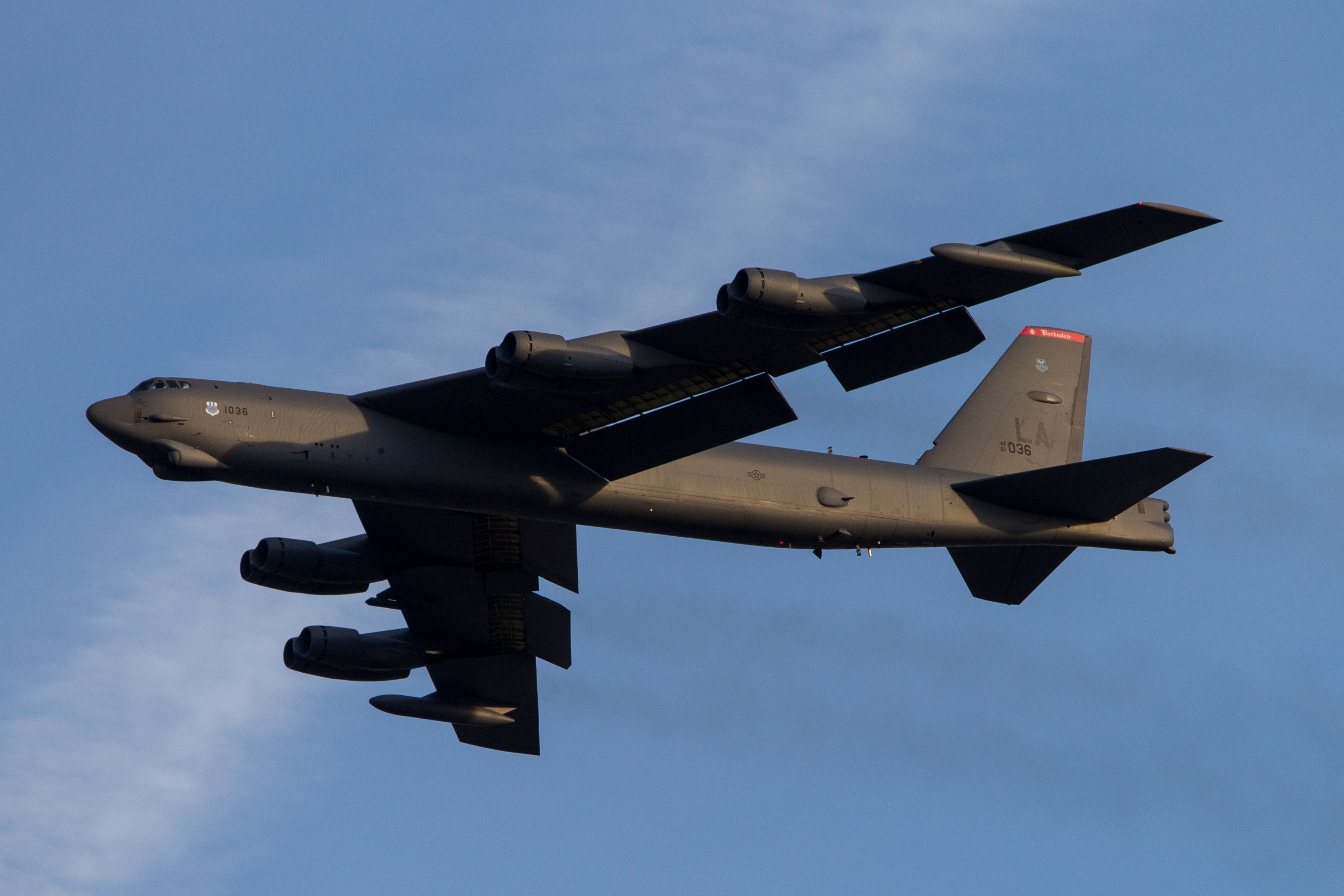 A B-52H-175-BW(61-0036) Stratofortress taking off from Tinker AFB, OK.